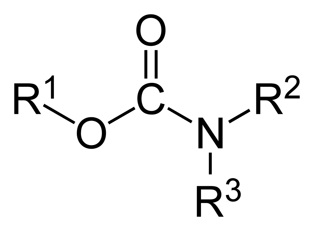 Structural formula of the carbamate group, ROCONR2.